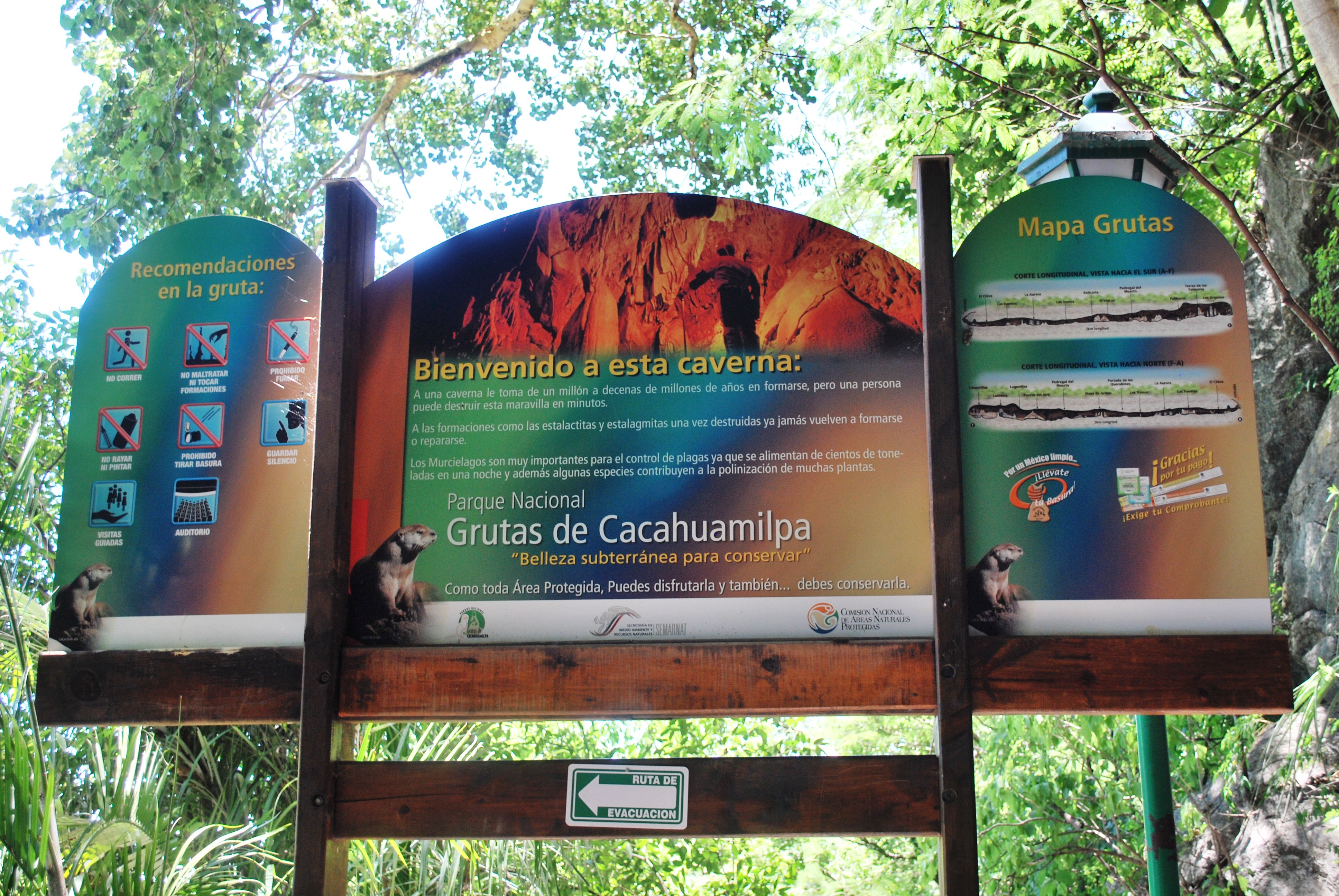 Sign outside the entrance to the Cacahuamilpa Caverns in Guerrero State, Mexico